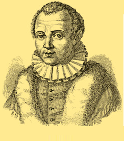 Alberico Gentili, one of the greatest lawyers and jurists of all time, (the founder of of the science of international law). Made legal history.